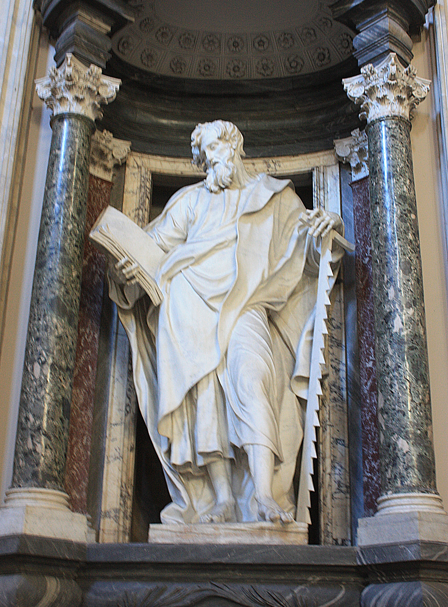 Rome, San Giovanni in Laterano, statue of Saint Simon